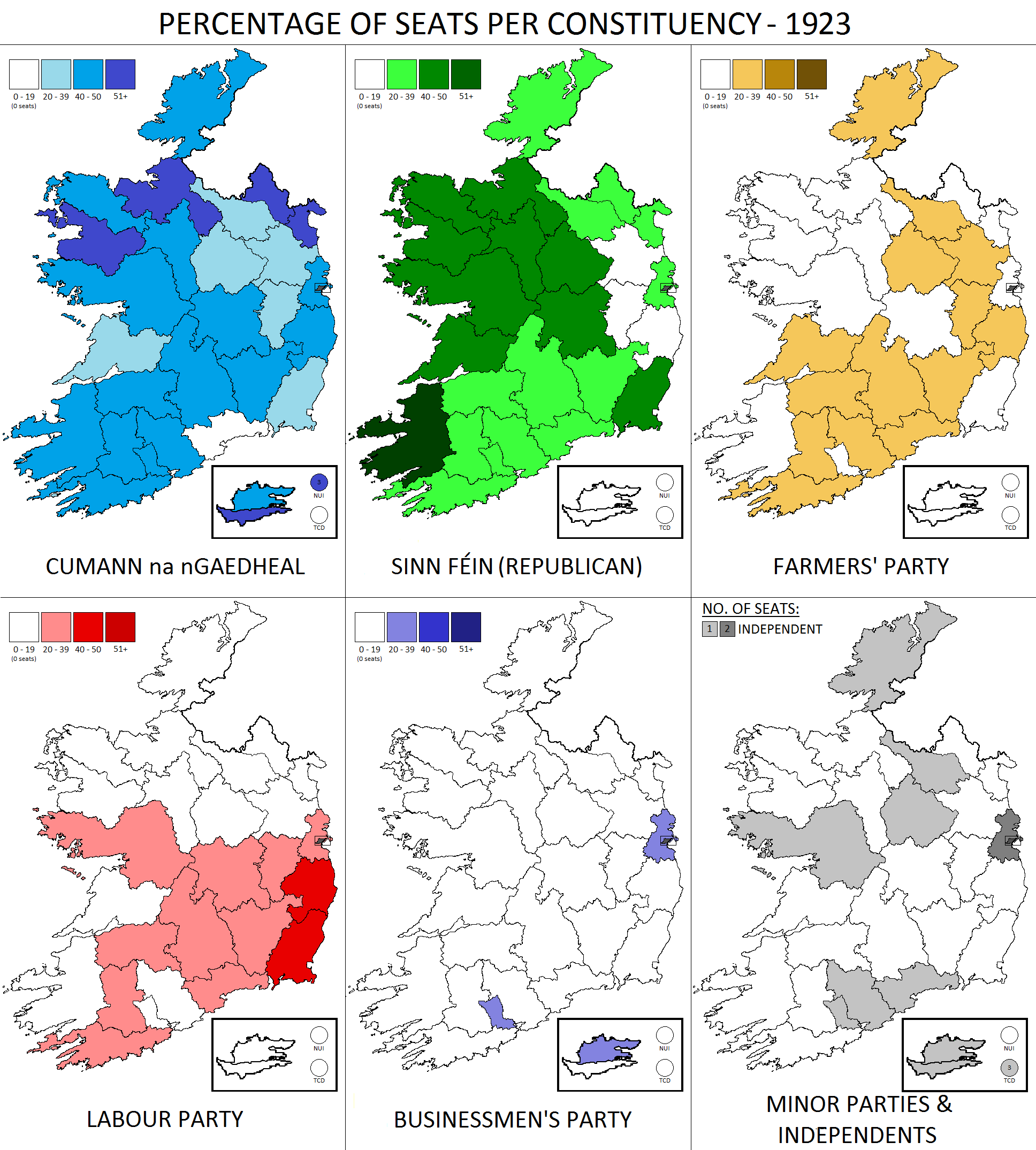 Graphical representation of the 1923 Irish general election results. Created by myself using data from Wikipedia and literary sources.